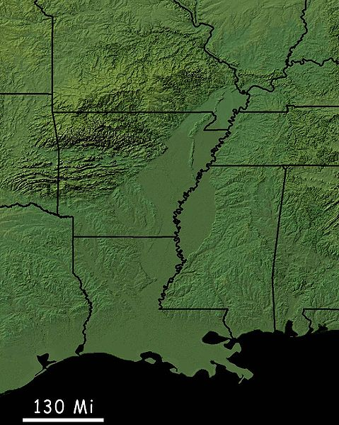 The Mississippi embayment is a wide alluvial plain extending from central Louisiana into southern Missouri